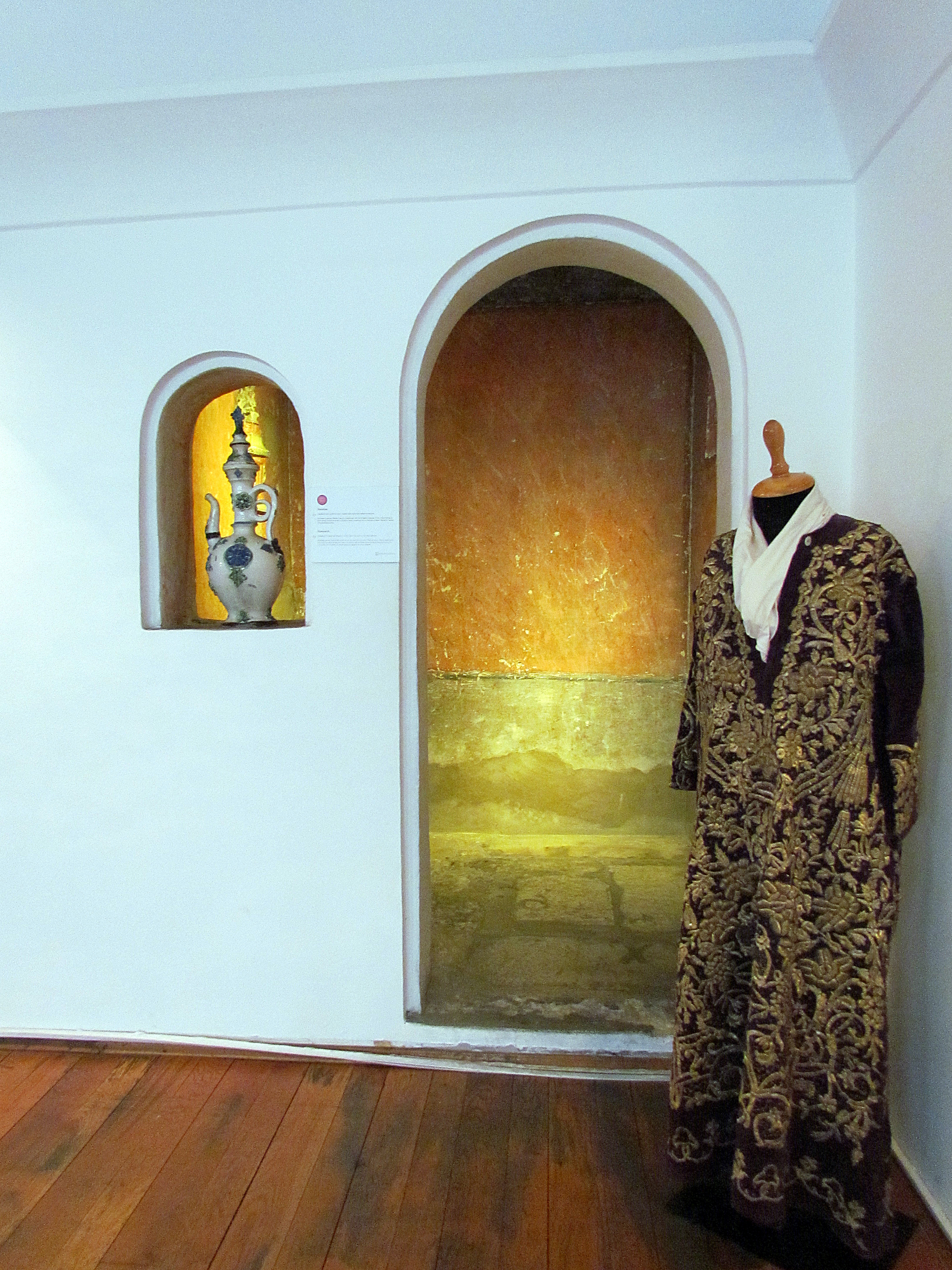 Amamcik (smal Turkish bath) in Princess Ljubica's Residence, Belgrade